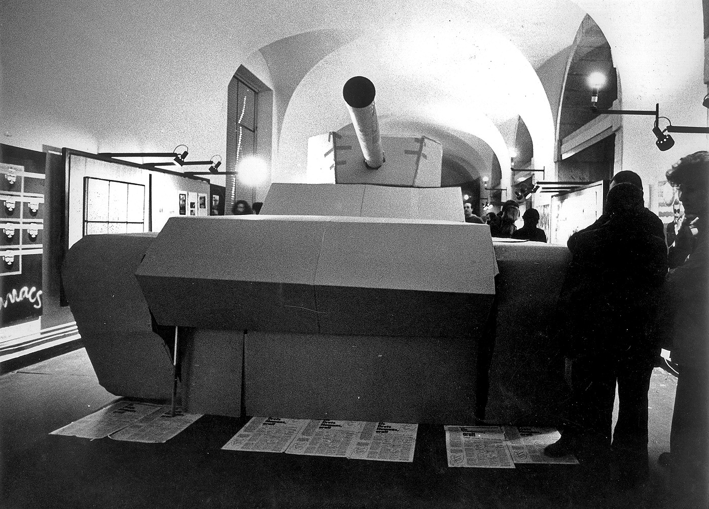 Collective performance from a grou of group of artists from Girona, Spainm, about Human Rights in 1976. This group is now disolved. No image rights to claim.